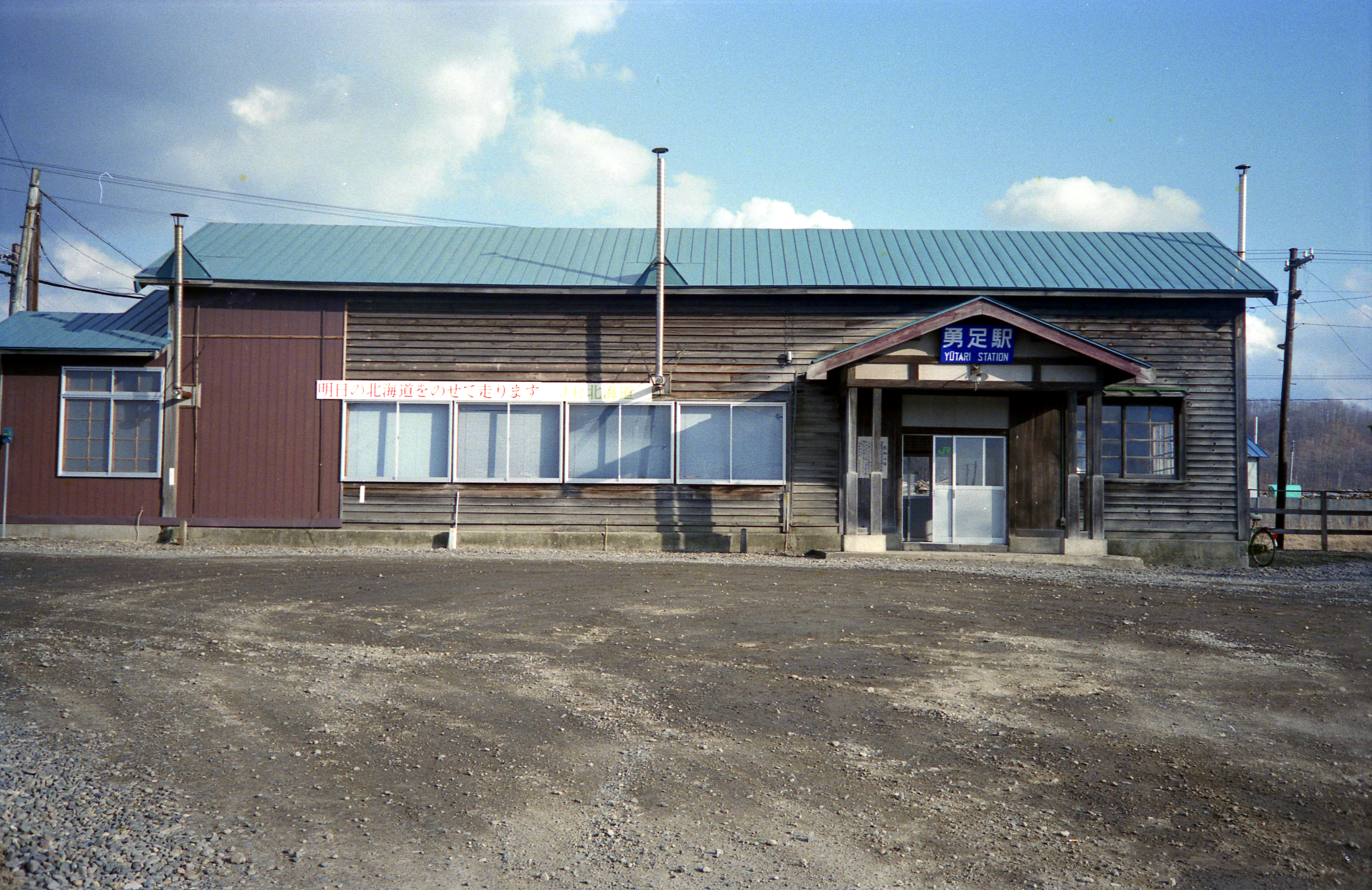 the building of Yutari Station,Hokkaido Railway Company Chihoku Line(before abolished)